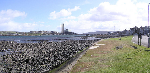 Larne Port. County Antrim